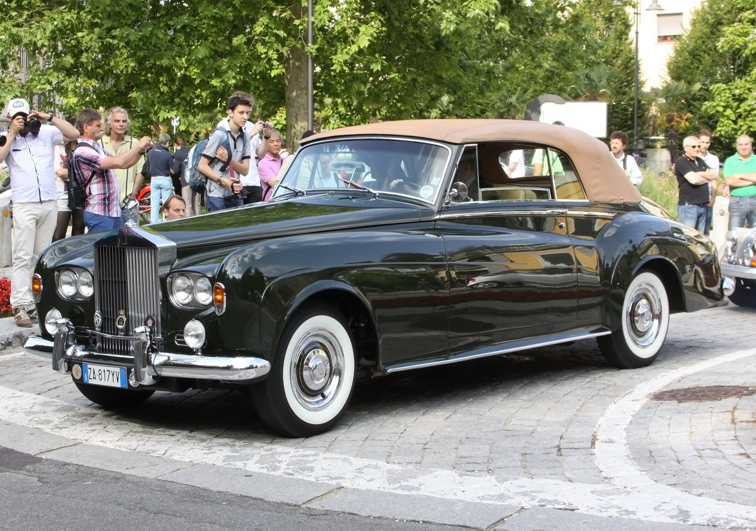 1963 Rolls Royce Silver Cloud III Drophead Coupè at Concorso d'eleganza Villa d'Este 2014.